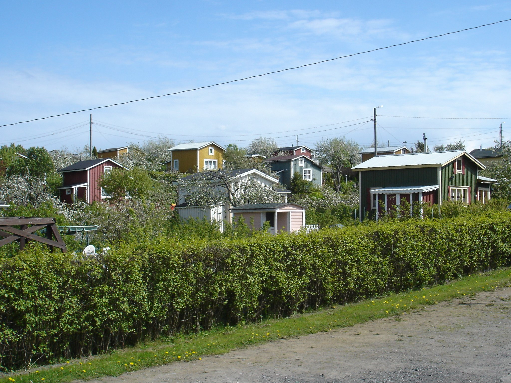 An allotment in Nekala district of Tampere.